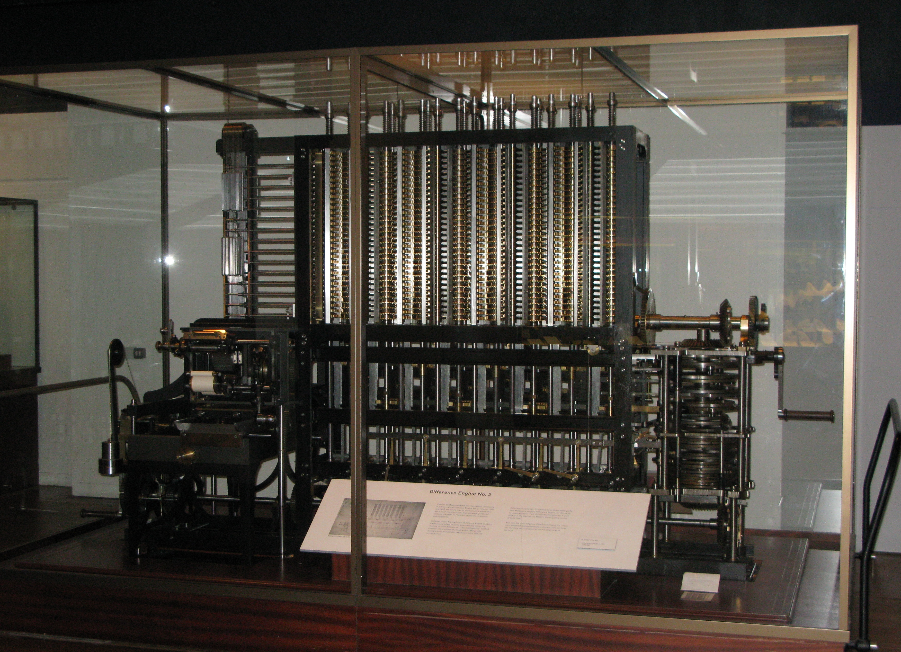 A photo of the Difference Engine constructed by the Science Museum based on the plans for Charles Babbage's Difference Engine No. 2